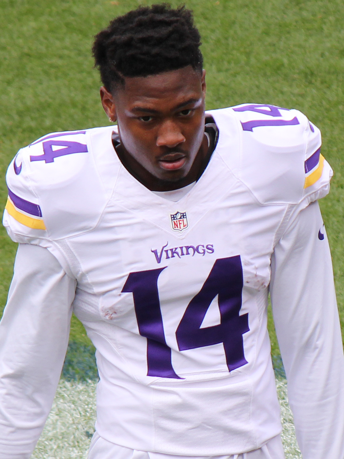 Stefon Diggs, a player on the National Football League.